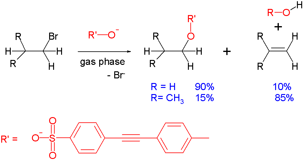 SN2 E2 gas phase competition